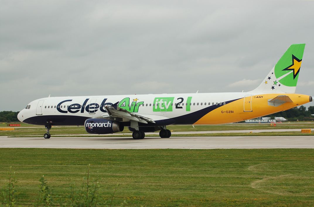 The Airbus A321 from the reality tv series CelebAir which was aired on itv2. For the show this Monarch Airline plane under the registration G-OZBI was repainted. The image shows the plane at Manchester Airport.